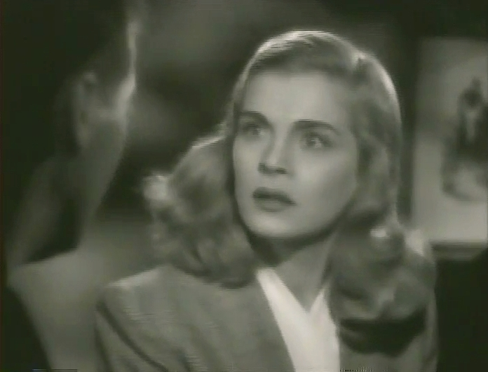 A screenshot of American actress Lizabeth Scott in You Came Along (1945) Other information A search of the US Copyright Office catalog shows negative results